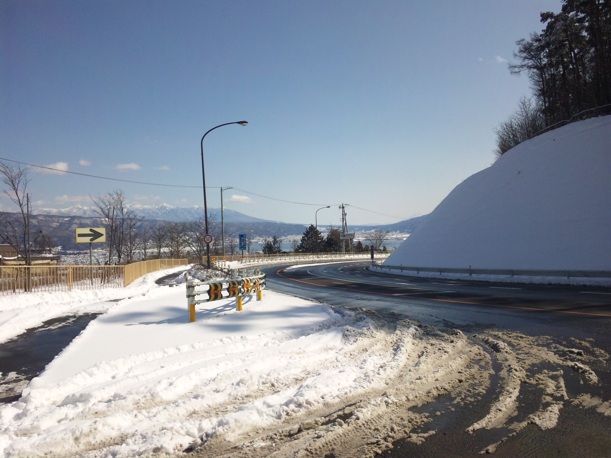 Lake Suwa View Of Shiojiri